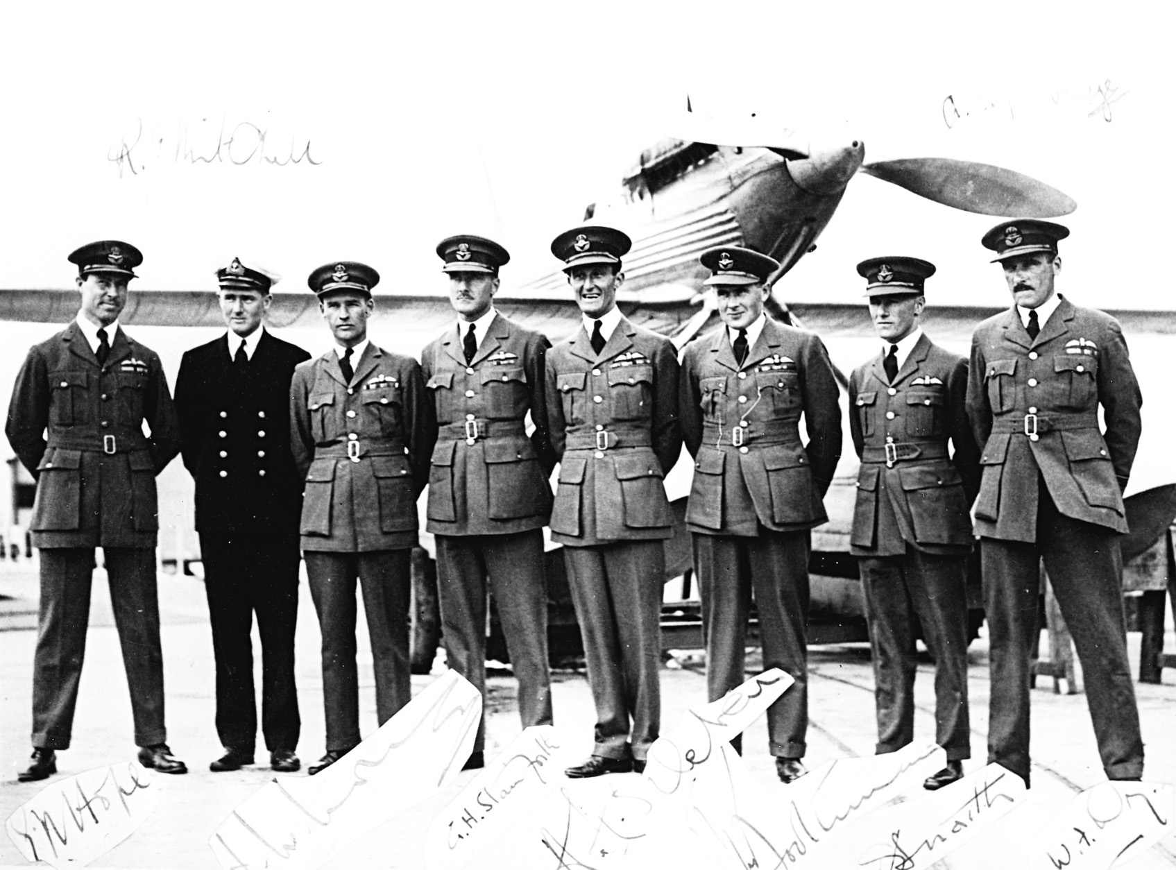 British team, RAF High Speed Flight, for Schneider Trophy race in 1931 left to right: Flt Lt E.J.L. Hope Lt RL "Jerry" Brinton (Fleet Air Arm) Flt Lt Freddy Long Flt Lt George Stainforth Sqn Ldr AH Orlebar (Flight Commander) Flt Lt John Boothman Fg Off Leonard Snaith Flt Lt W.F. Dry (Engineering Officer) In the background is a Supermarine S.6B, or possibly a S.6A